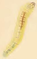 Stainton’s Natural History of the Tineina (1855–1873): Phyllonorycter viminetorum larva